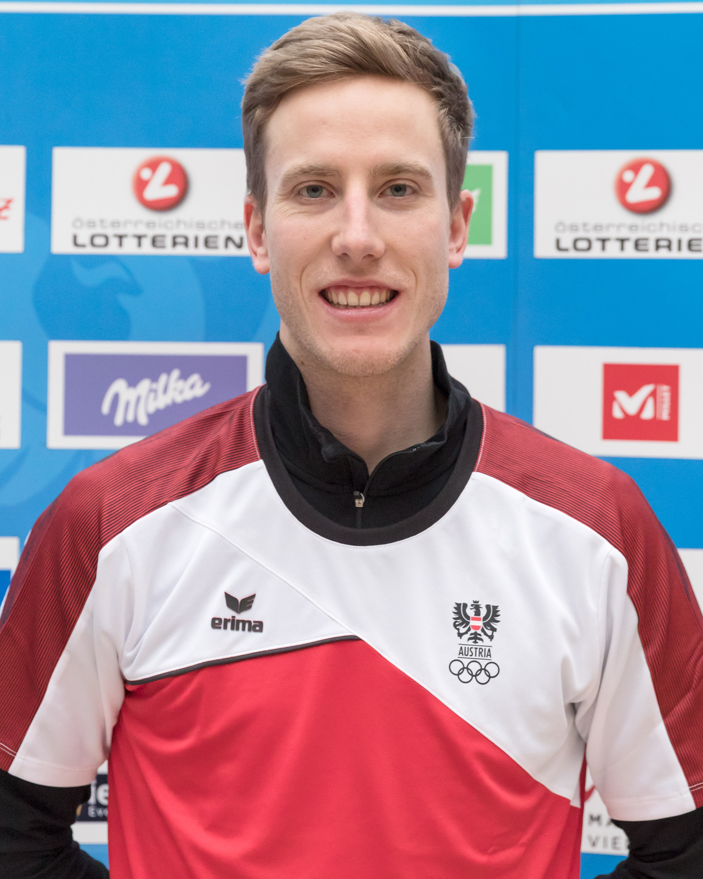 Luis Stadlober at the outfitting of the Austrian team for the 2018 Winter Olympics (Hotel Marriott in Vienna, Austria.